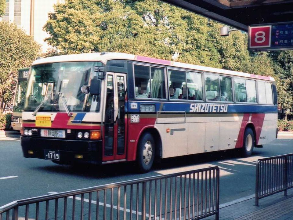 Shizutetsu Highway Bus Mitsubishi P-MS715N 1992.12.12 At Hamamatsu Sta. Photo by Cassiopeia_sweet.